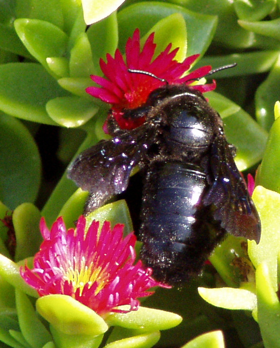 Violet carpenter bee (Xylocopa violacea) on heartleaf ice plant (Aptenia cordifolia) in Sardinia, Italy.